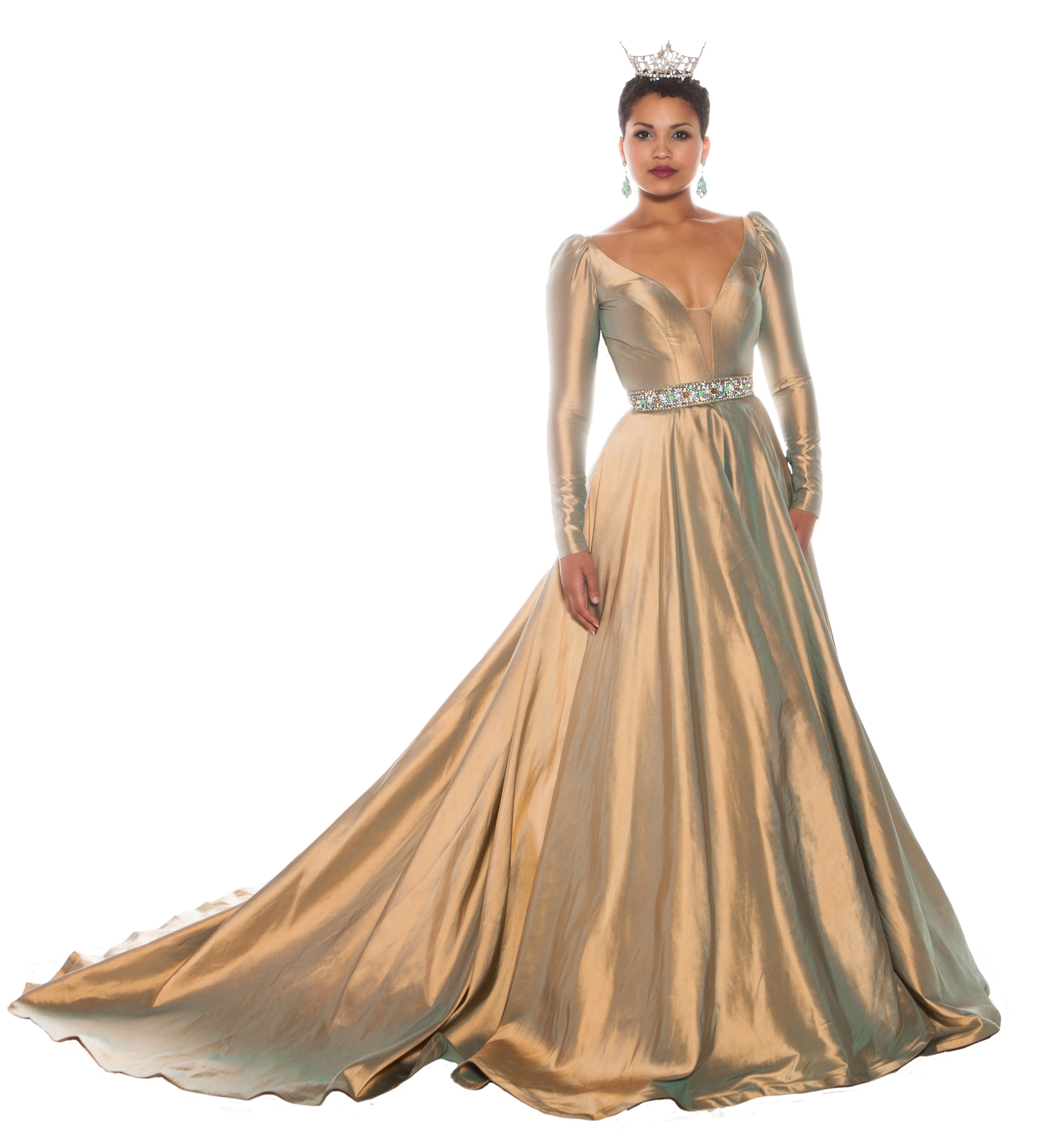 Clark Davis photo in her Miss America gown. I am not sure how to upload the copyright release, but I am her mother and I have it on file if you need it.